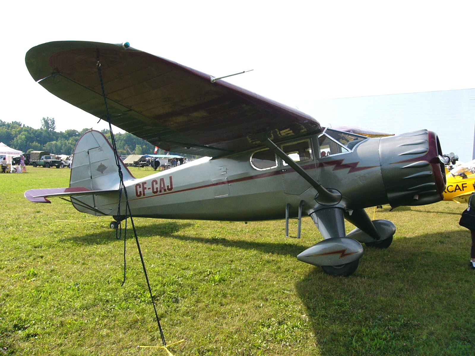 Stinson V77 Reliant (or more likely an SR-10; the V77 didn't have the bumps on the cowling. Additionally, the V-77 had only a single left side door. As the Canadian register identifies this as a V-77, it may be highly modified or the register is in error.)